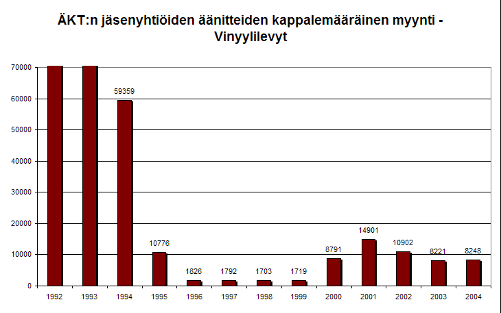 Graph of vinyl records sold in Finland in 1992–2004